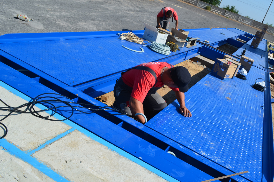 Installation of car weights